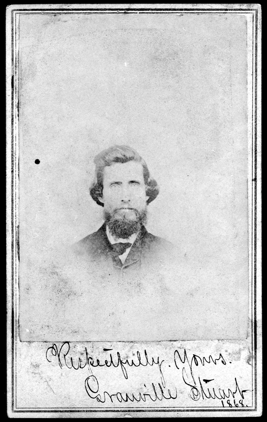 Early portrait of Granville Stuart, 1868